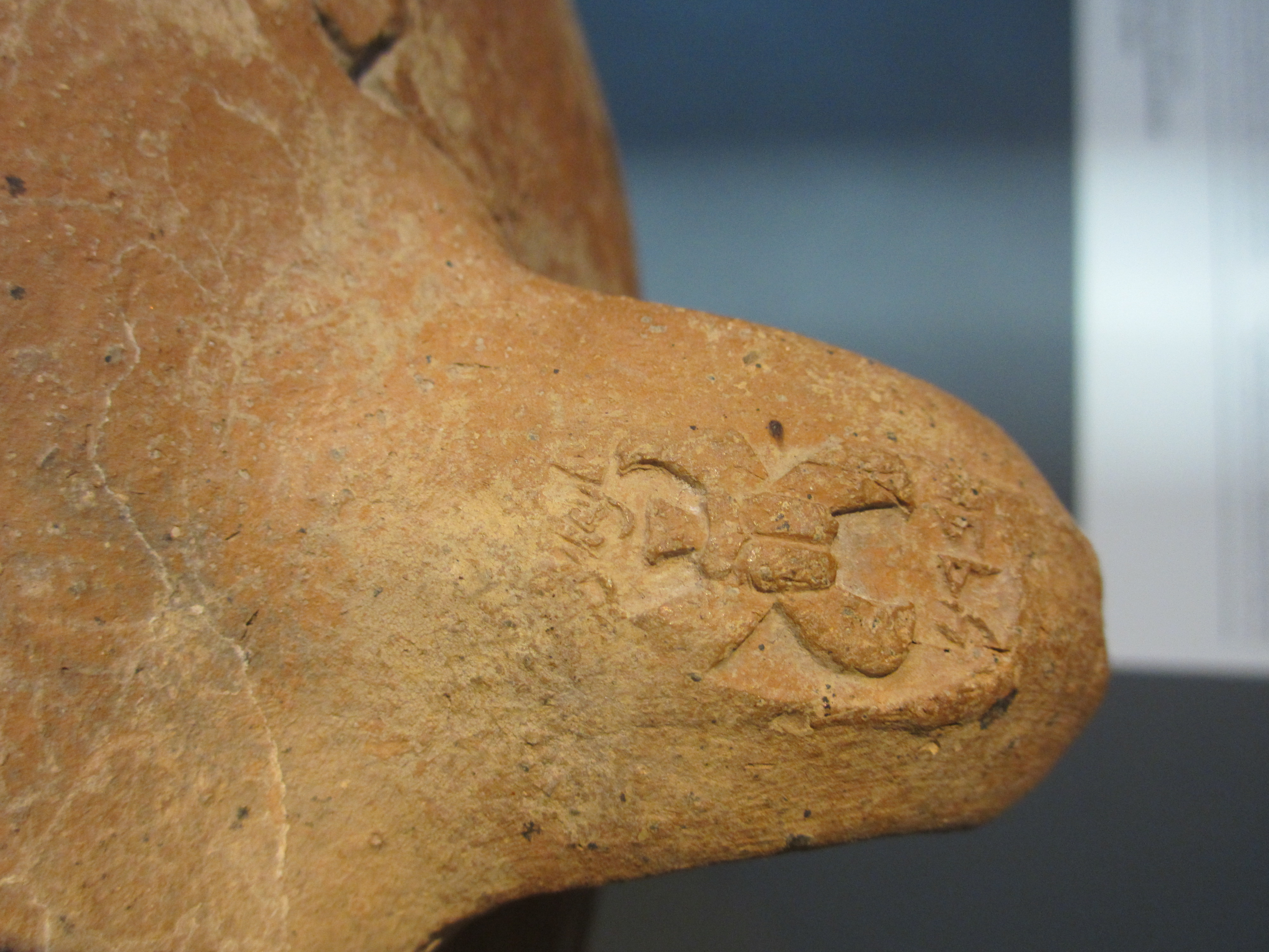 LMLK seal : handle of storage jar with "belonging to the king, Hebron" (Lakish, late 8th BCE). Israel Museum, Jerusalem